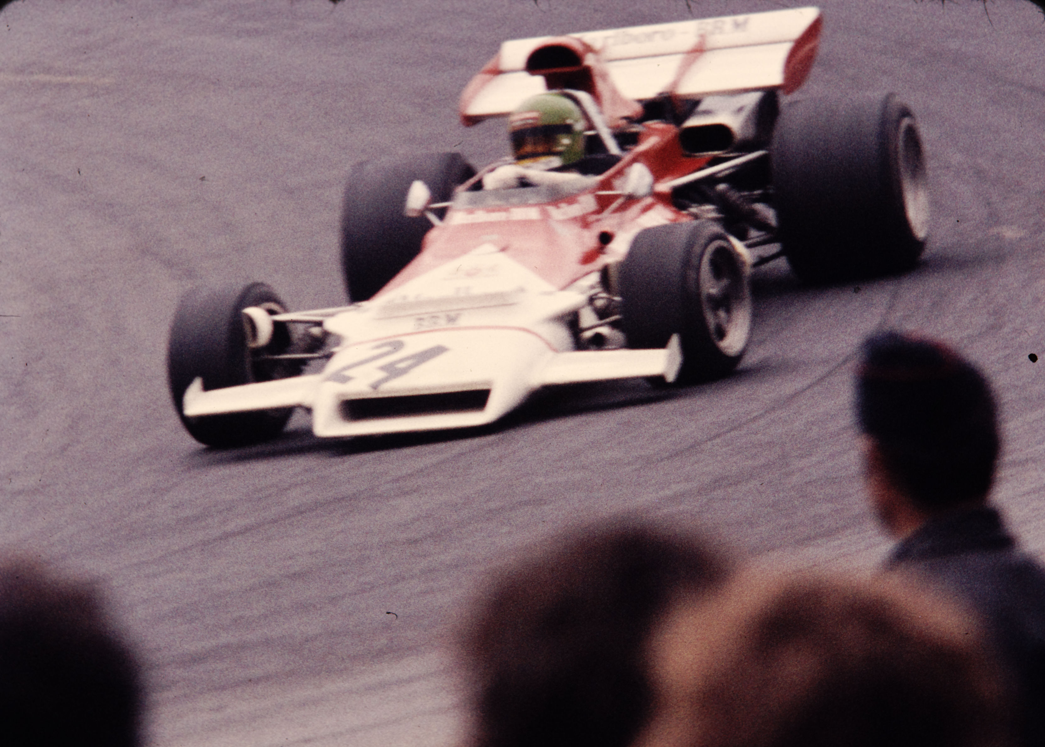 1972 French Grand Prix...